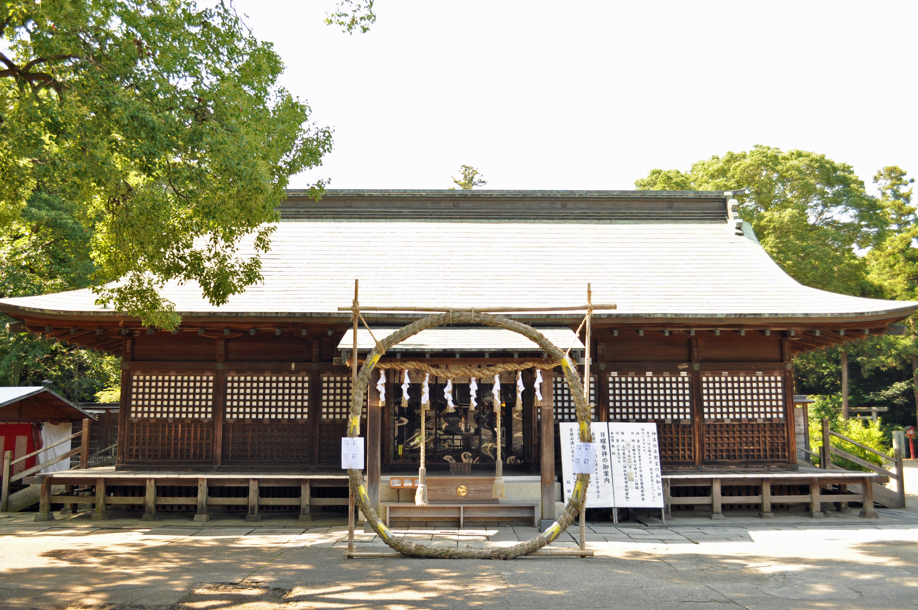 Holl of worship at Washimiya shrine